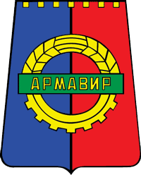 Armavir (Krasnodar krai), coat of arms (1974)